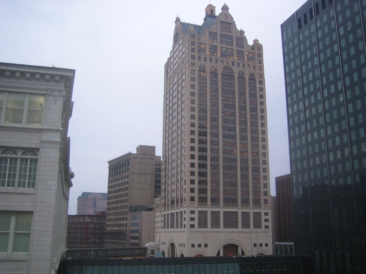 Milwaukee's second tallest building I do believe.